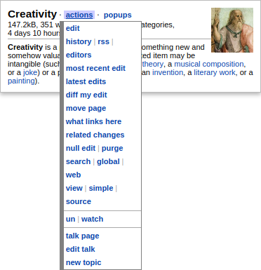 Wikipedia:Tools/Navigation_popups popupStructure value 'menus' example